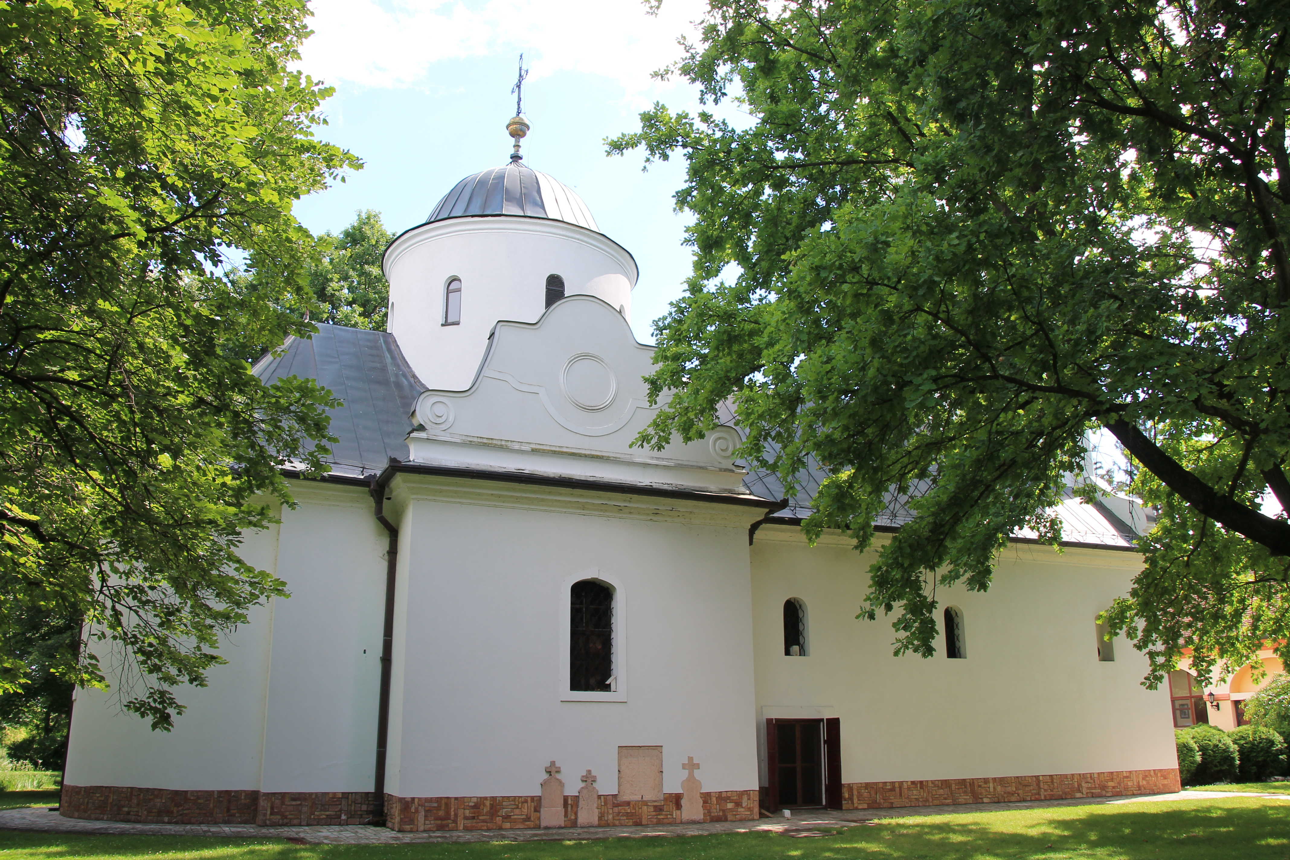 Bođani Monastery